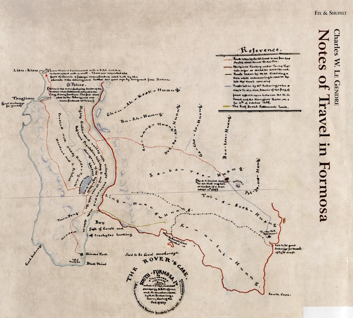 Map of The Rover’s Case—South Formosa, in Notes of Travel in Formosa , 1869. Transcription: {from the upper left-hand side} Lian-Kiau {琅𤩝} is surrounded with a Ditch and {???} {?????} with a wall. There are imported the Goods of Chinese & foreign manufacture used both by the Chinese & the Aborigines. Settled 200 years ago by Immigrants from Pookien.